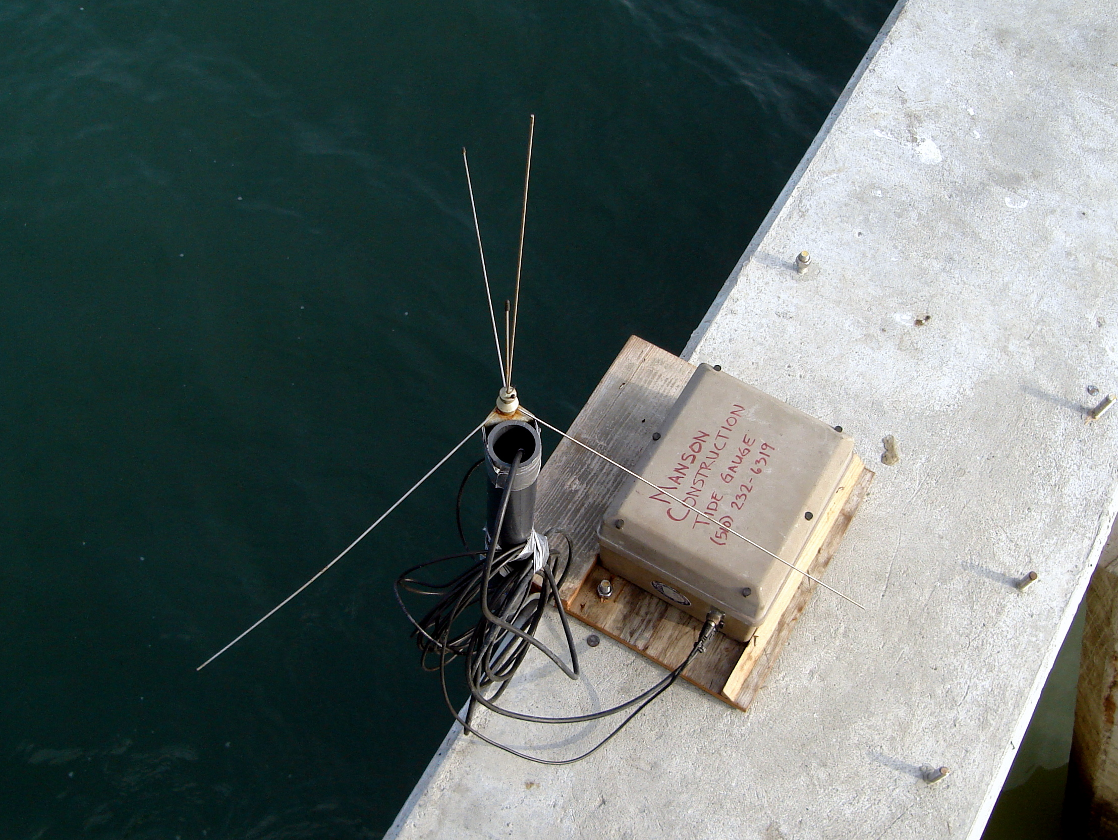 Tide gauge in Emeryville, California, United States